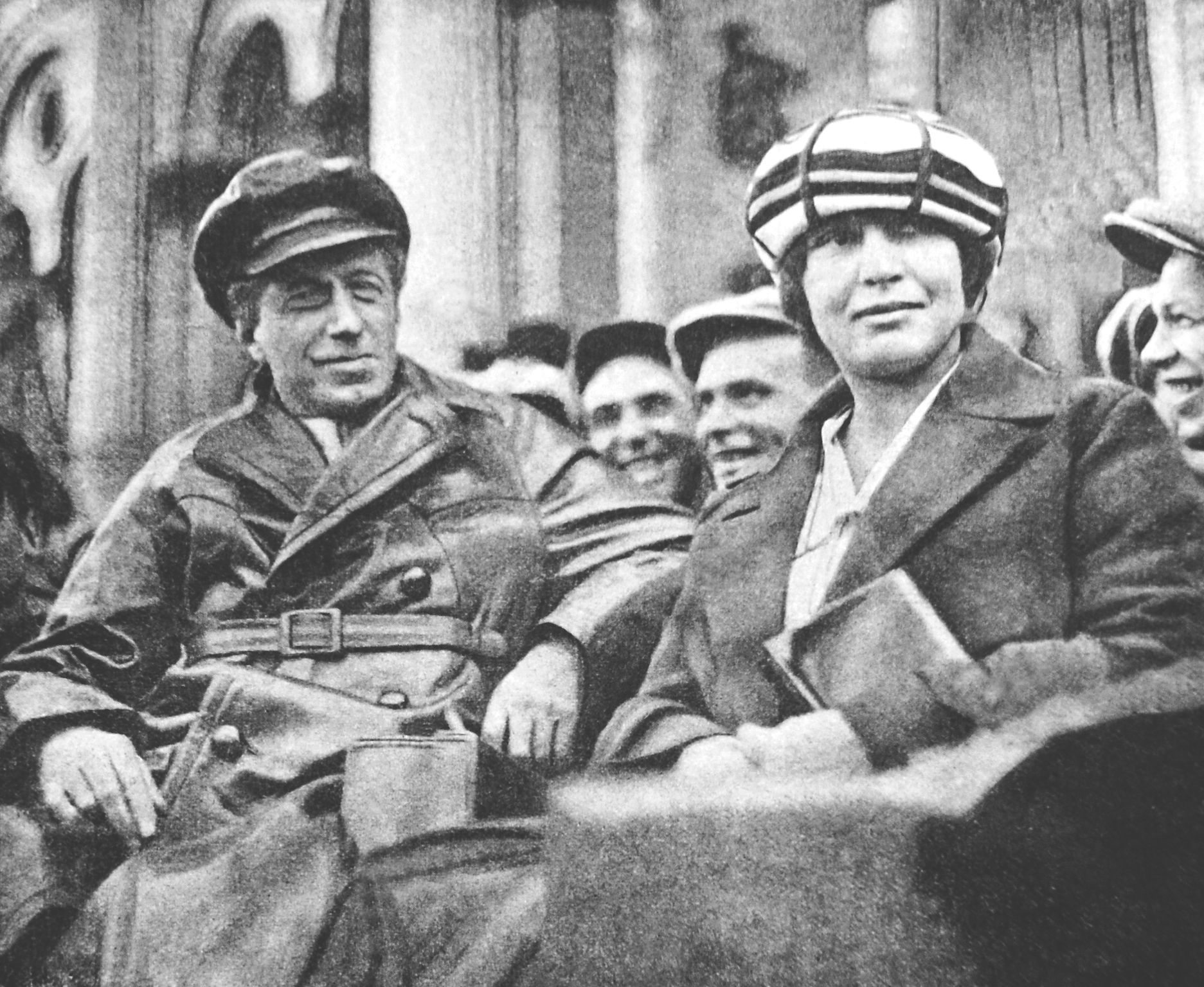 Vsevolod Meyerhold and Zinaida Meyerhold-Reich Leningrad (St Peterburg) 1925. Vsevolod Meyerhold was arrested on 20 June 1939, tortured and sentenced to death by firing squad on 1 February 1940. Zinaida Meyerhold stabbed to death by unknown intruders (NKVD agents).